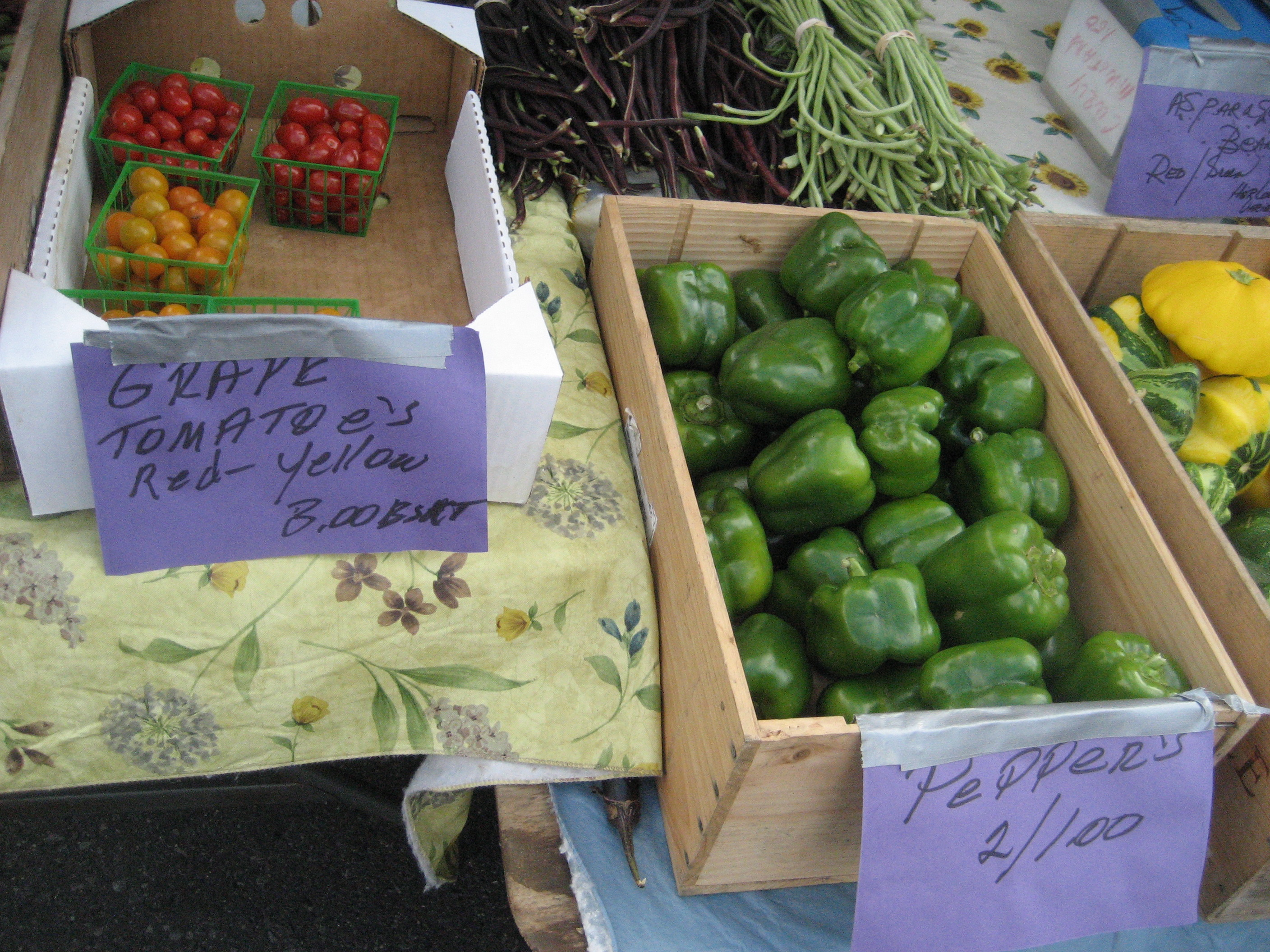 Produce at "Mid-City Green Market", New Orleans, including bell peppers and grape tomatoes